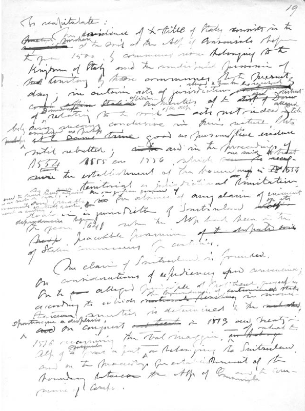 Manuscript by George Perkins Marsh: Cravairola Decision.